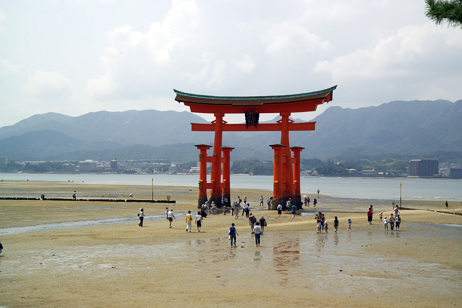 Tourists visit torii during low tide at Itsukushima Shrine, Miyajima, Hiroshima Prefecture, Japan.